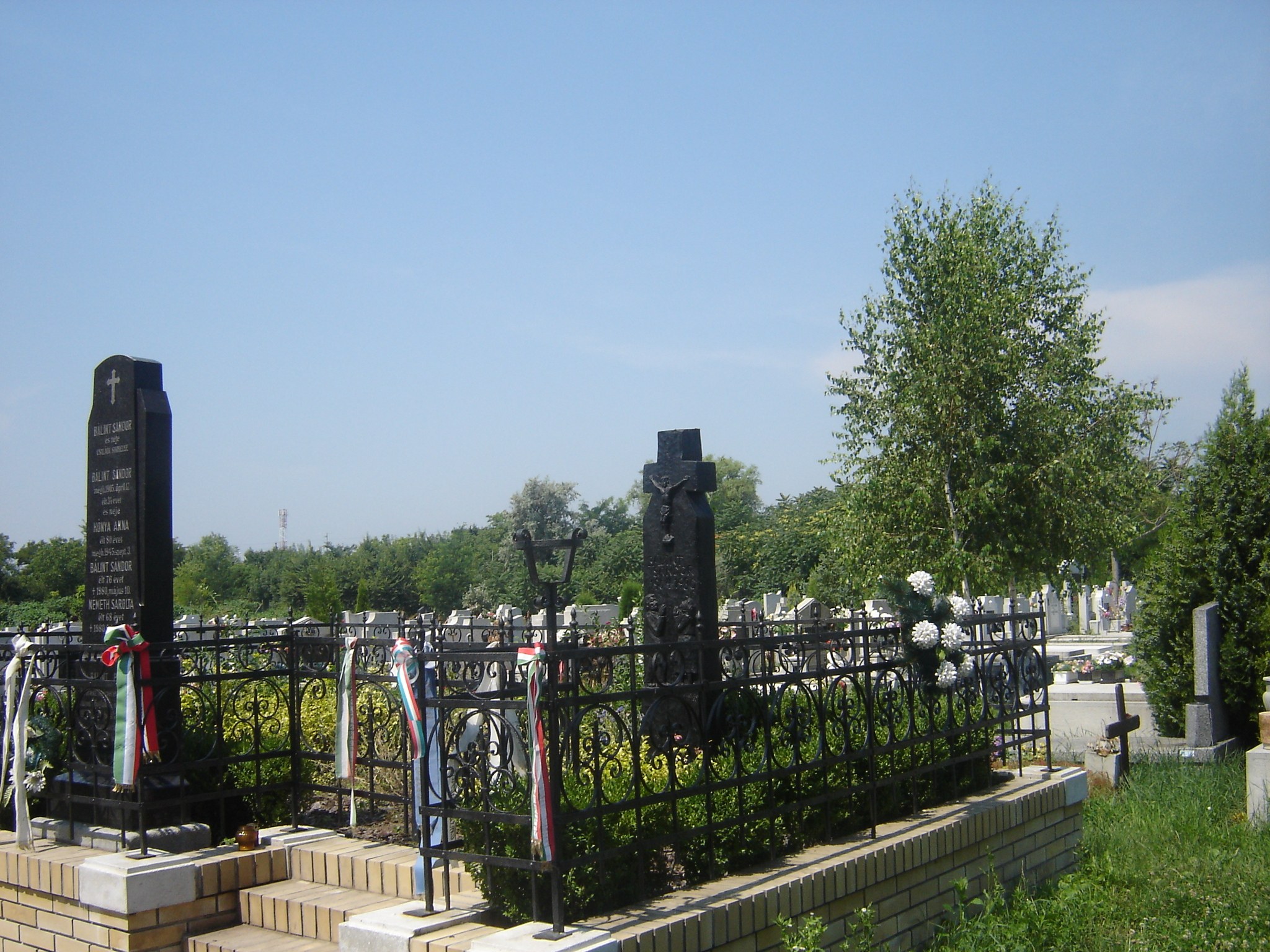 Tomb of Sándor Bálint Hungarian ethnographer in Szeged